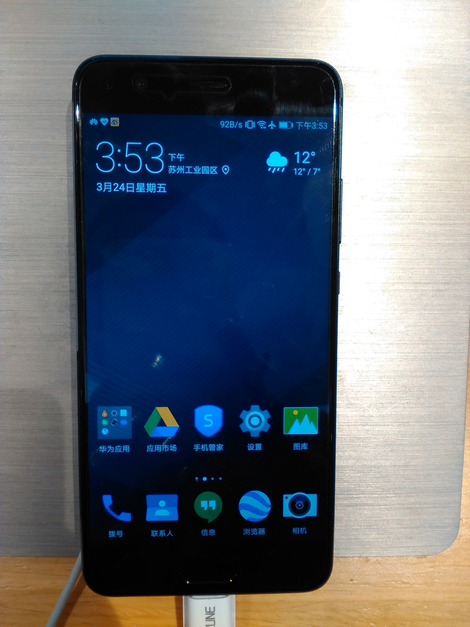 Black color of Huawei P10 Plus.